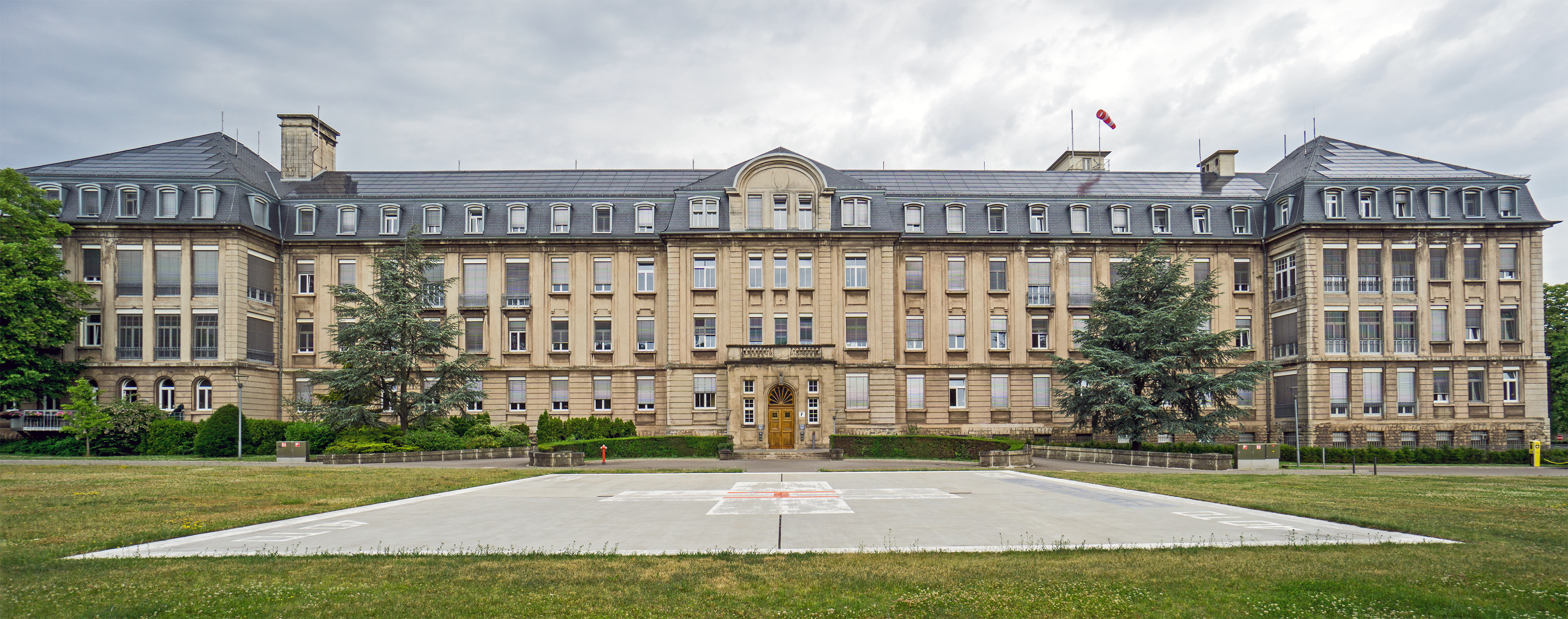 The old building part of the hospital of Esch, the Centre hospitalier Emile Mayrisch in Esch-sur-Alzette